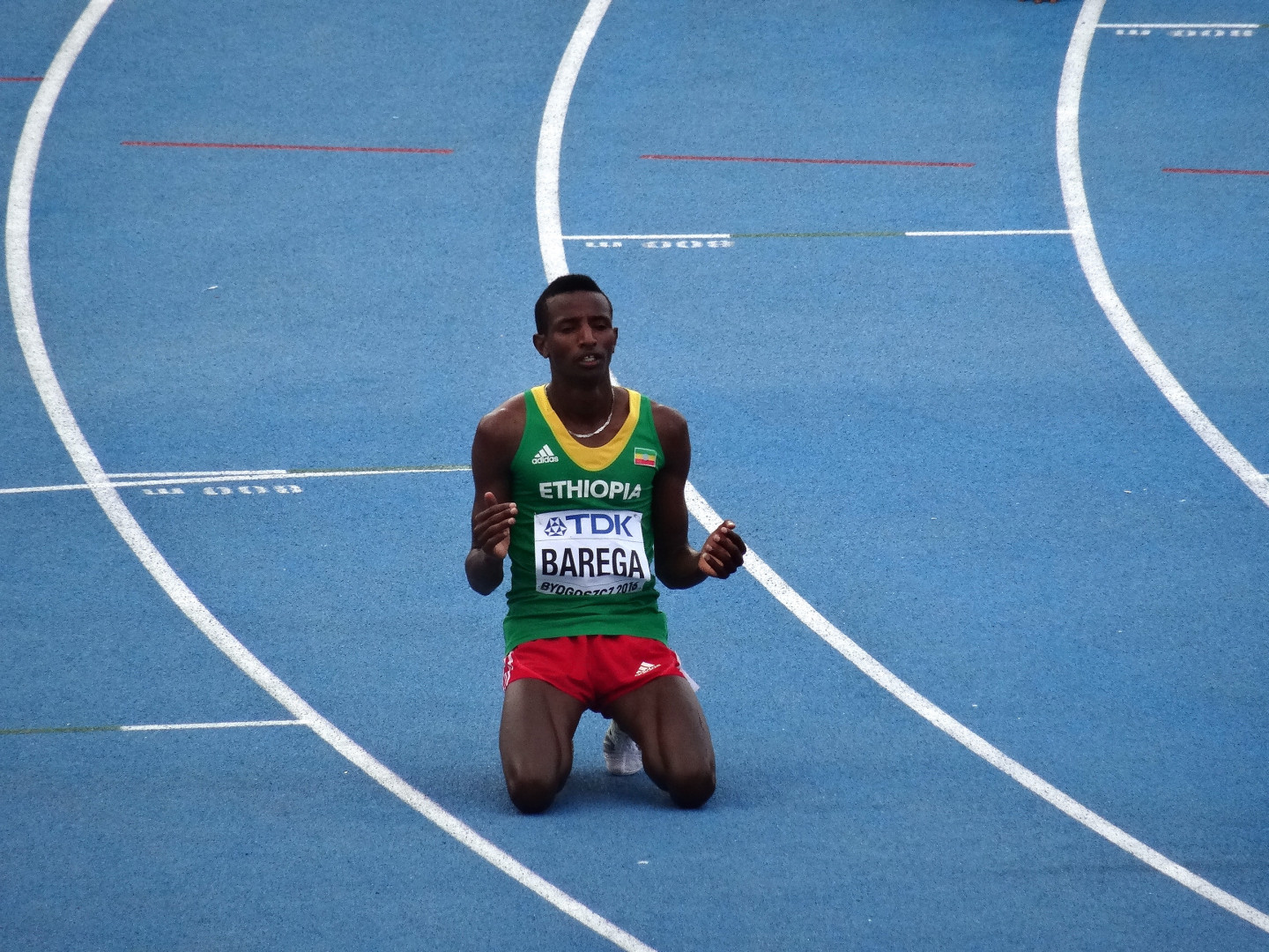 2016 IAAF World U20 Championships in Bydgoszcz, 5000m men final